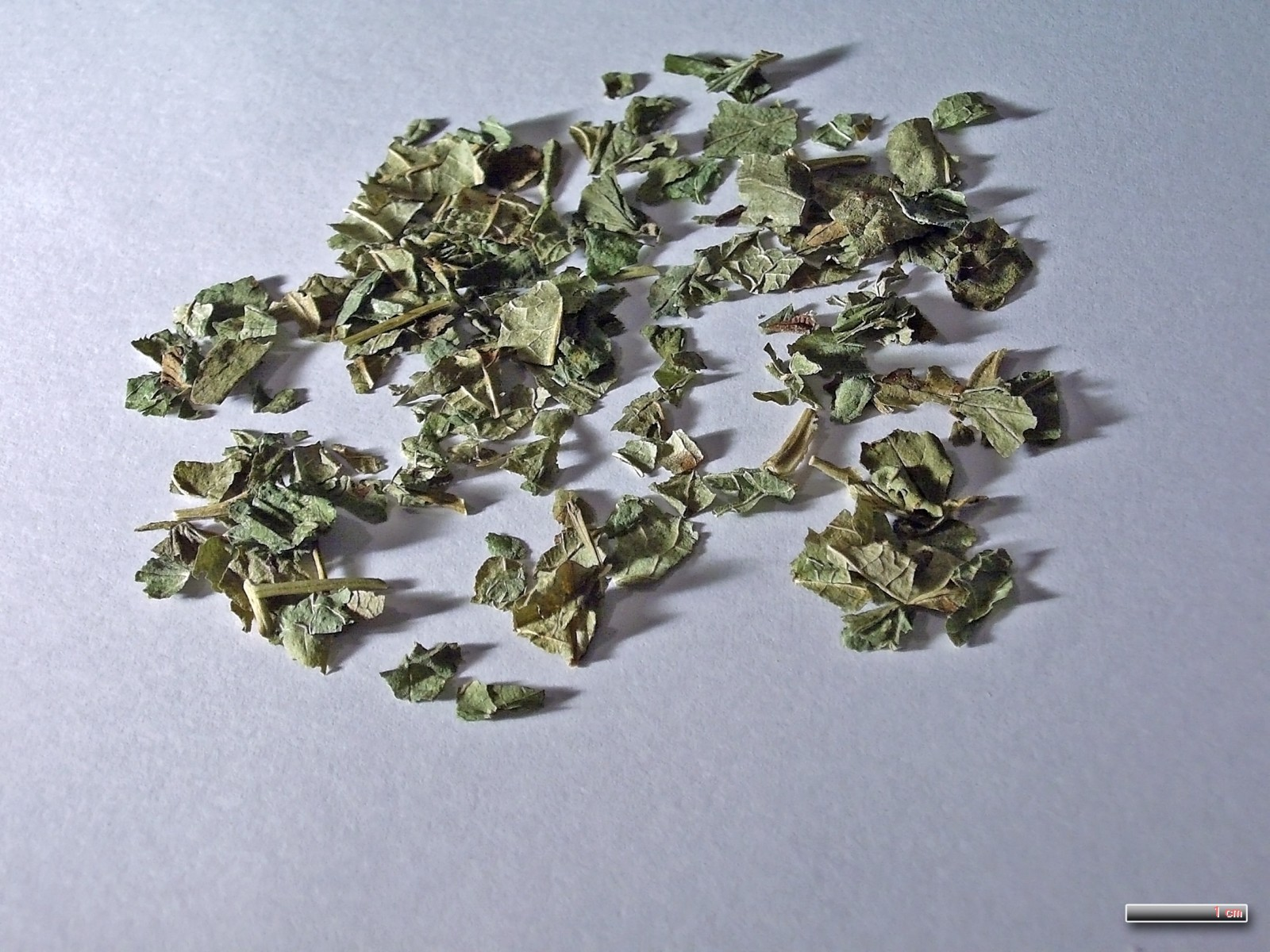 dried Ribes nigrum, or Blackcurrant Leafs